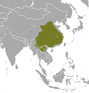 Himalayan Water Shrew (Chimarrogale himalayica) range